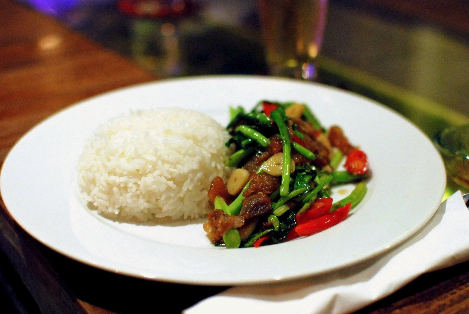 Phat khana mu krop: Thai style stir-fried (phat; Thai script: ผัด) Chinese broccoli ([phak] khana; Thai script: [ผัก]คะน้า) with crispy pork (mu krop; Thai script: หมูกรอบ). Other ingredients are garlic, oyster sauce, pepper and soy sauce. Adding in (sliced) chillies is optional. Here it is served rat khao, meaning "together with rice".